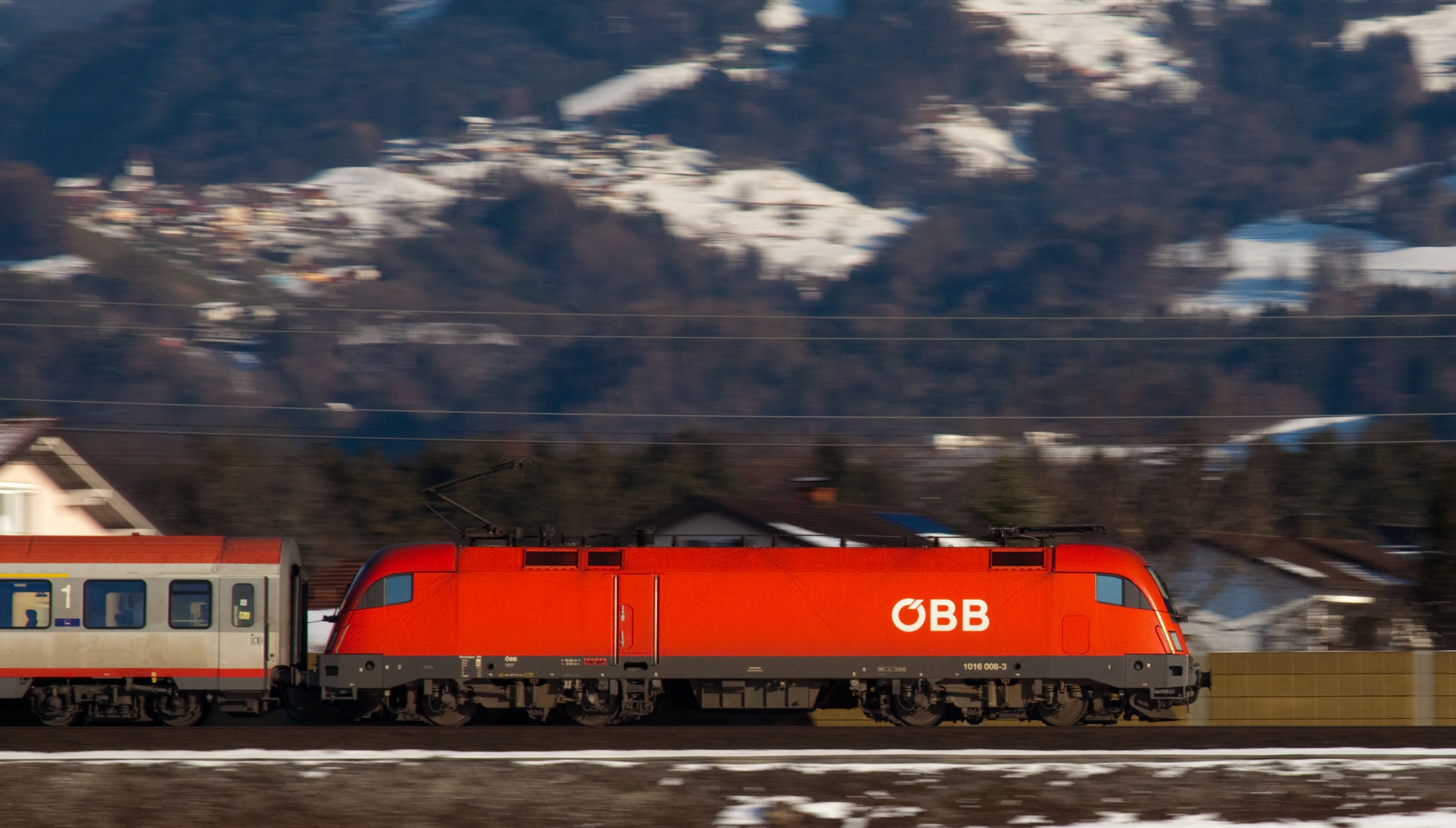 An OEBB 1016 Taurus locomotive, built by Siemens seen in the track between Rankweil and Götzis, Austria.